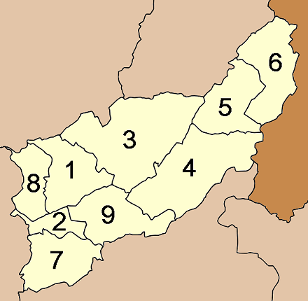 Map of the province Uttaradit with the districts (Amphoe) numbered. Mueang Uttaradit (อำเภอเมืองอุตรดิตถ์) Tron (อำเภอตรอน) Tha Pla (อำเภอท่าปลา) Nam Pat (อำเภอน้ำปาด) Fak Tha (อำเภอฟากท่า) Ban Khok (อำเภอบ้านโคก) Phichai (อำเภอพิชัย) Laplae (อำเภอลับแล) Thong Saen Khan (อำเภอทองแสนขัน)